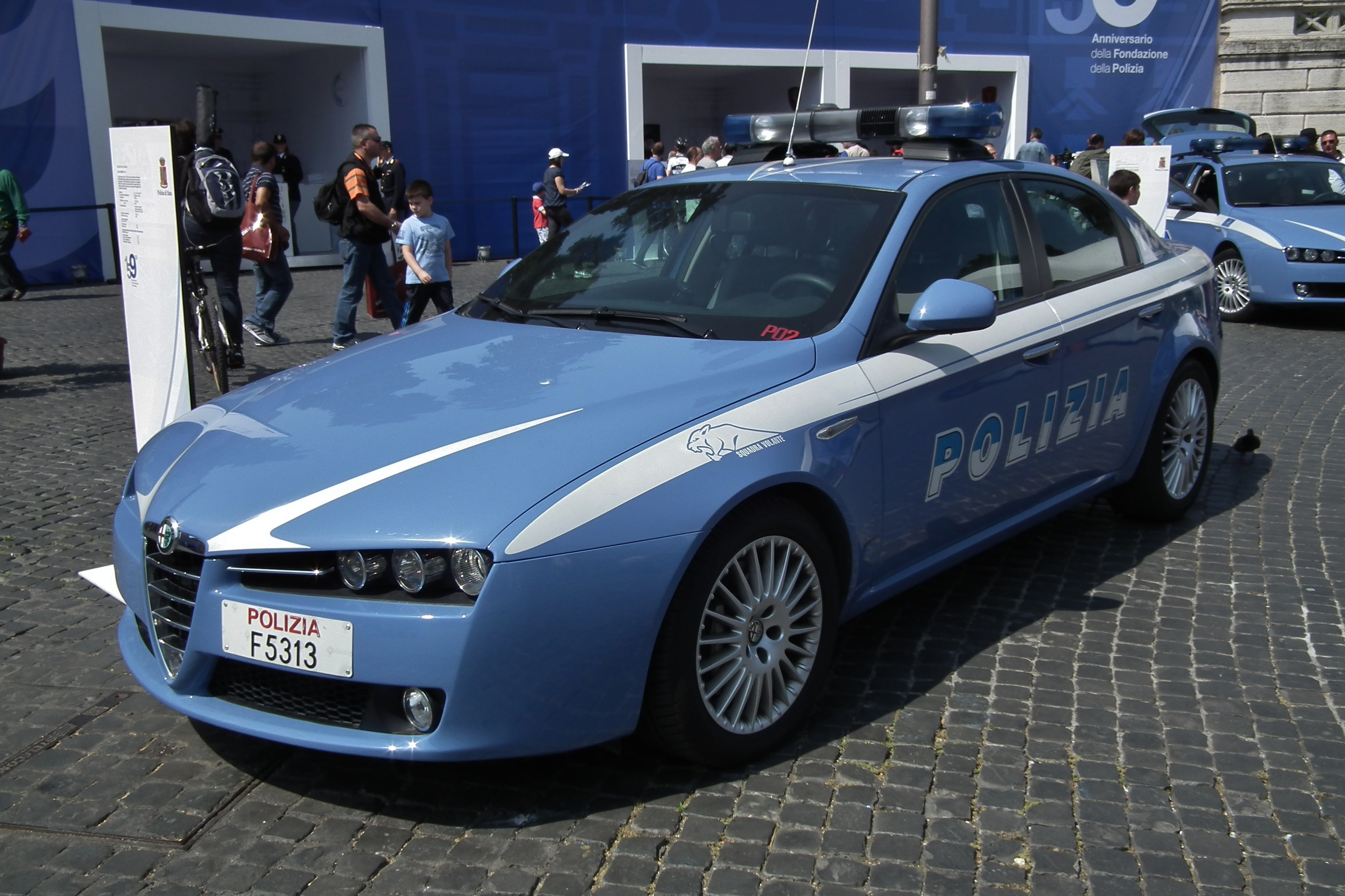 Alfa Romeo 159 sedan. Operated by the Squadra Volante (Flying Squad) of the Polizia di Stato (Italian State Police). Taken at a Polizia display in the Piazza del Popolo in Rome.